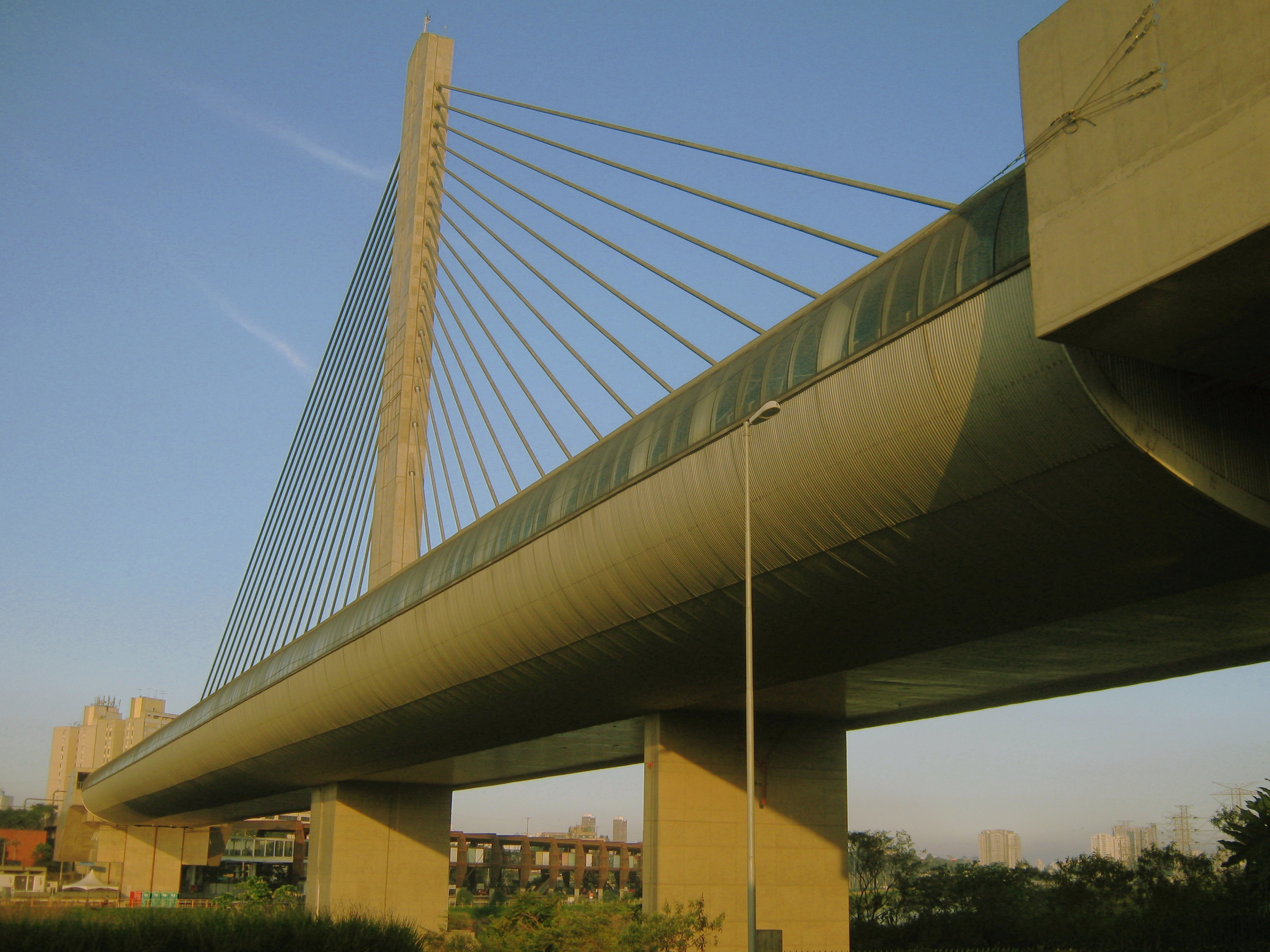 The Santo Amaro Station of São Paulo Metro